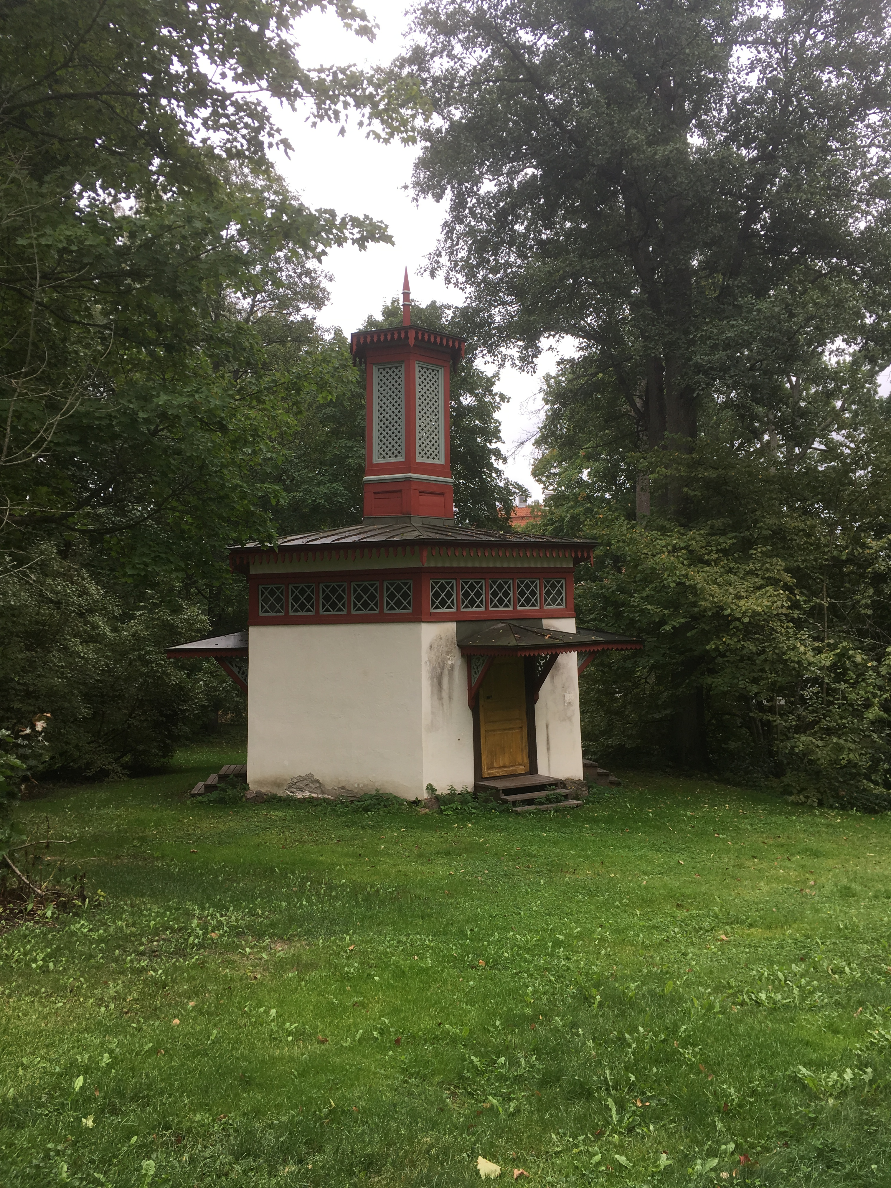 The Russian Emperor visited Träskända manor in Espoo, Finland, in the late 19th century, and ahead of his visit an ornamented toilet building was built for him. Today it still stands on the manor grounds behind the manor.